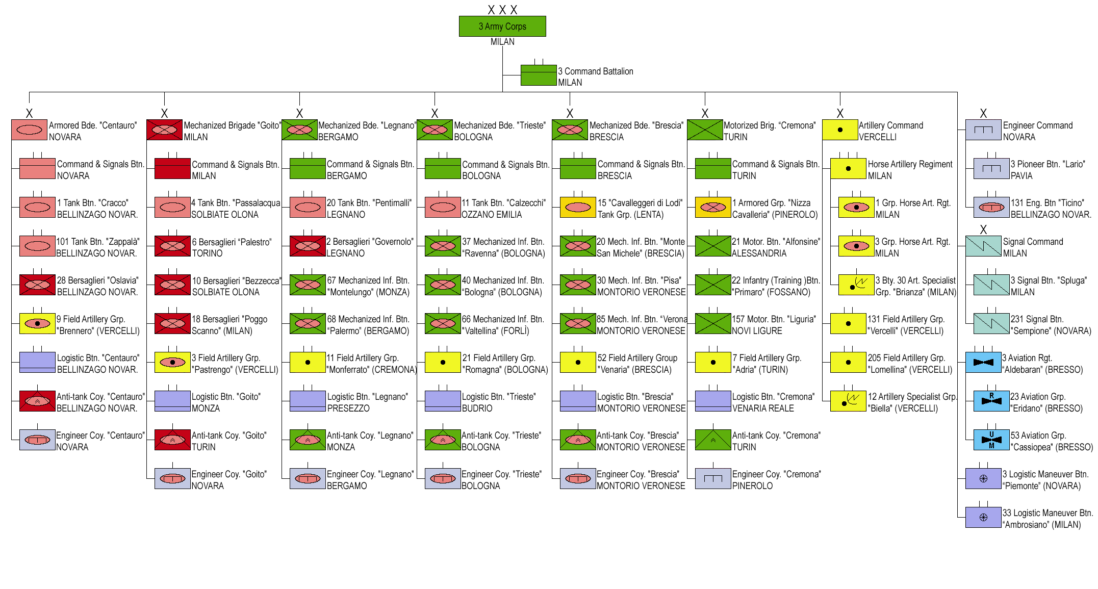 Italian Army - 3rd Army Corps structure in 1989 before the drawdown of forces at the end of the Cold War began.